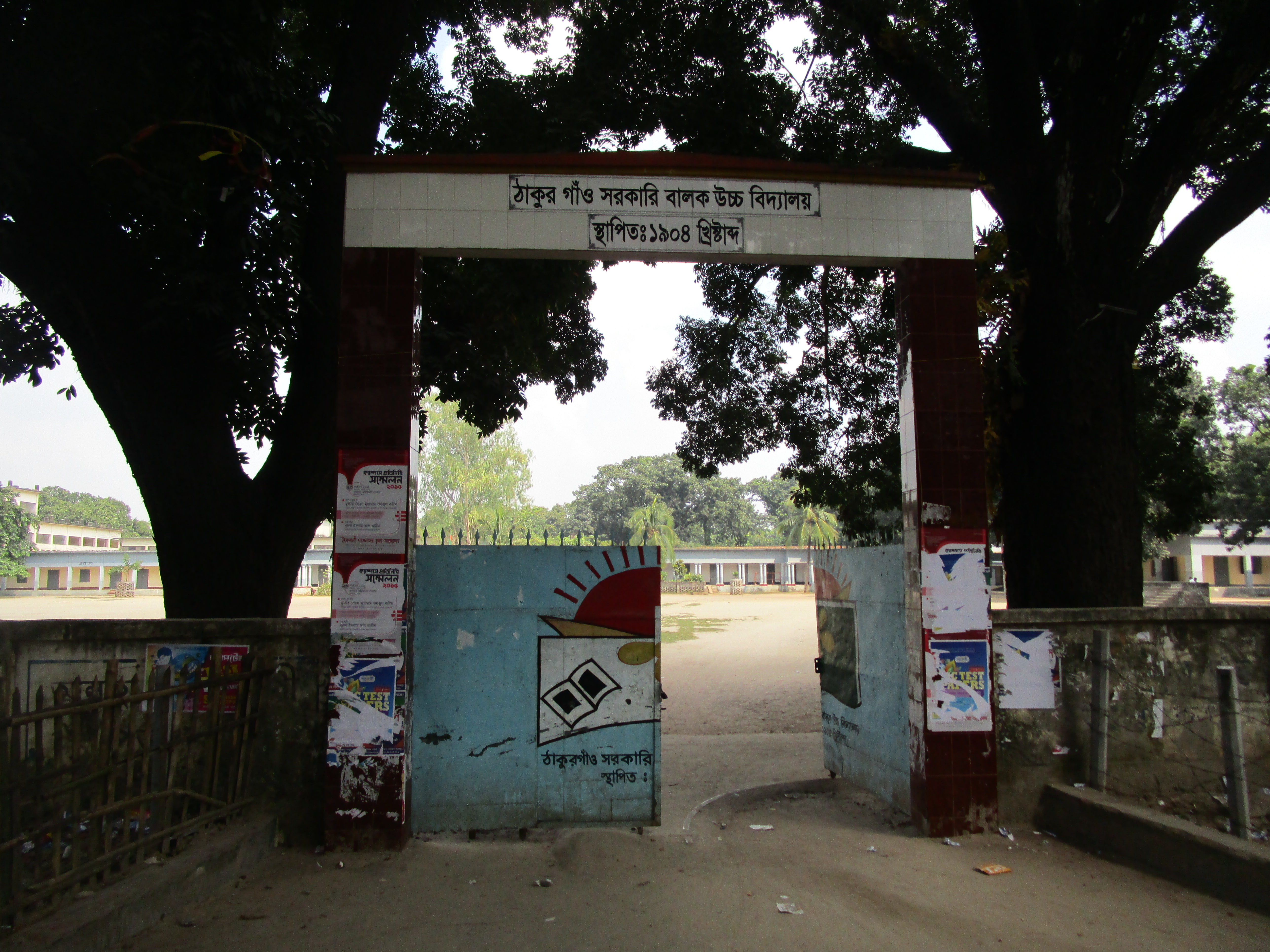 Thakurgaon Zilla School Nameplate.